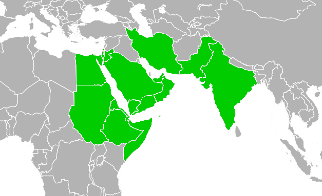 Distribution of Tephrosia apollinea by country. References for range documented in article on "Tephrosia apollinea". Map based on CC3.0-licensed Wikimedia Commons file "File:BlankMap-World-v2.png" originally by user Roke.